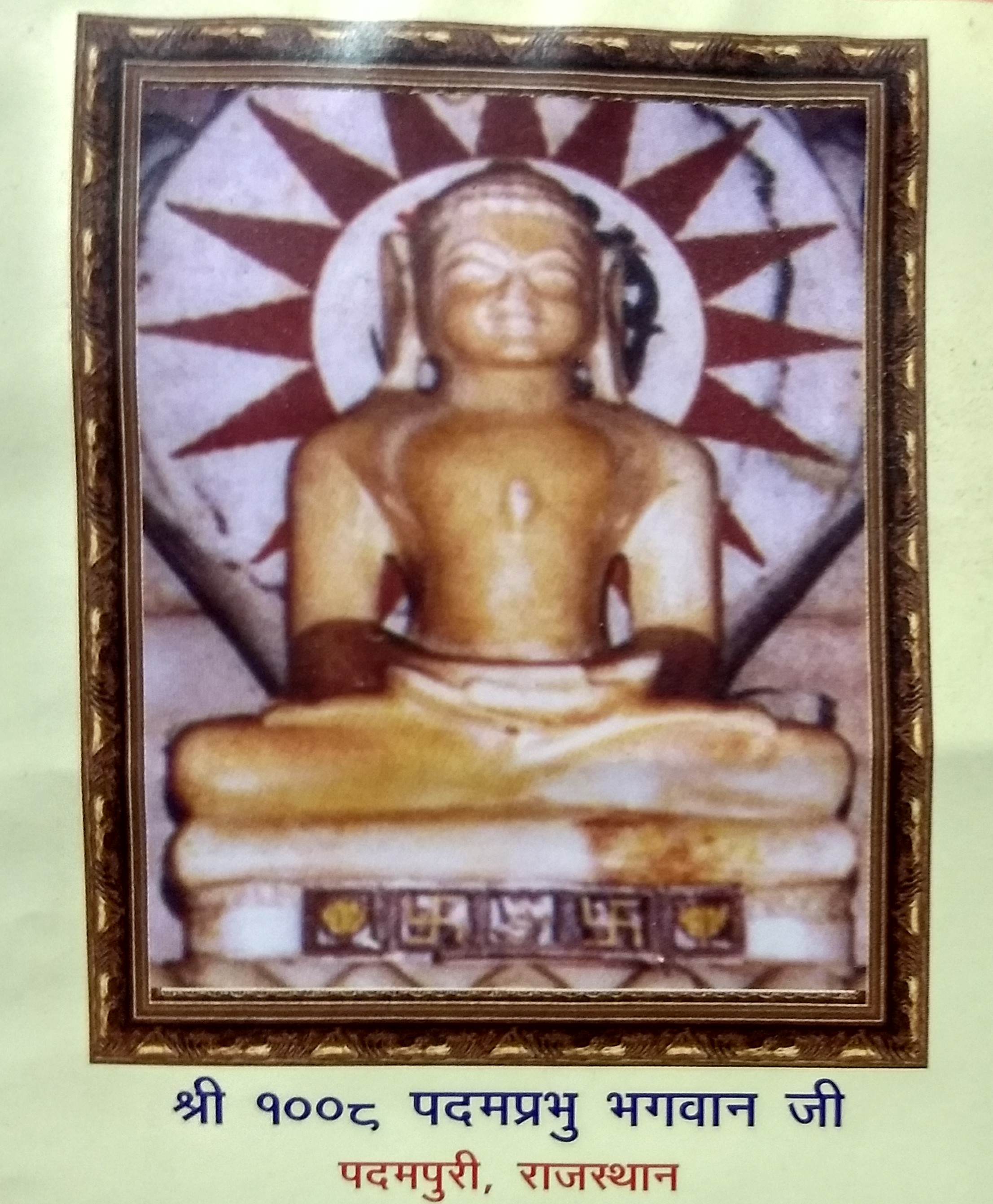 Padampura Idol, Padampura Atishay kshetra, Jaipur